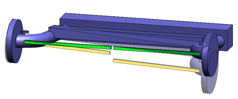 Twist beam suspension shown in double exposure. Left side up and both sides up